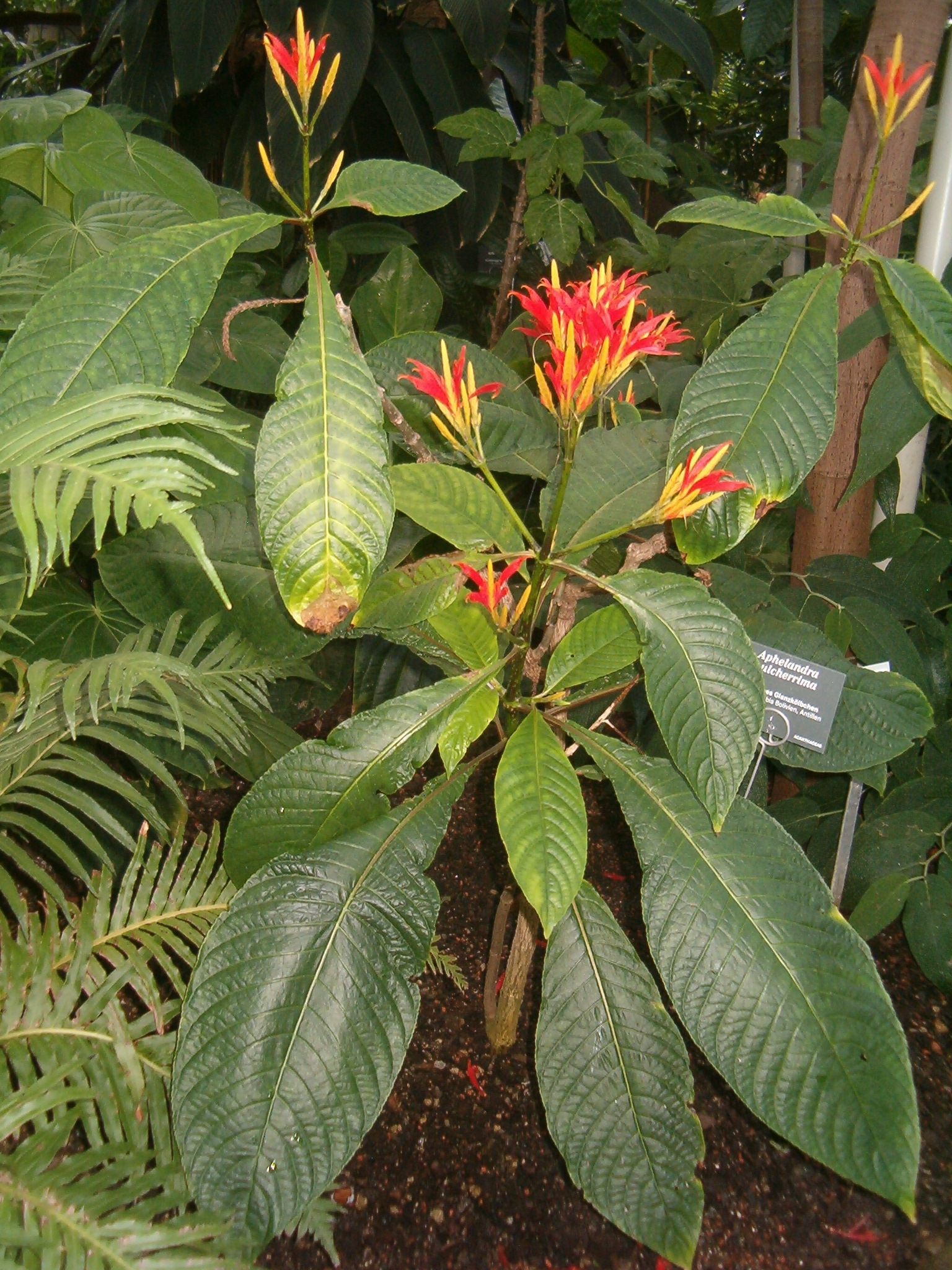 At Botanical Gardens Berlin-Dahlem Species Aphelandra pulcherrima